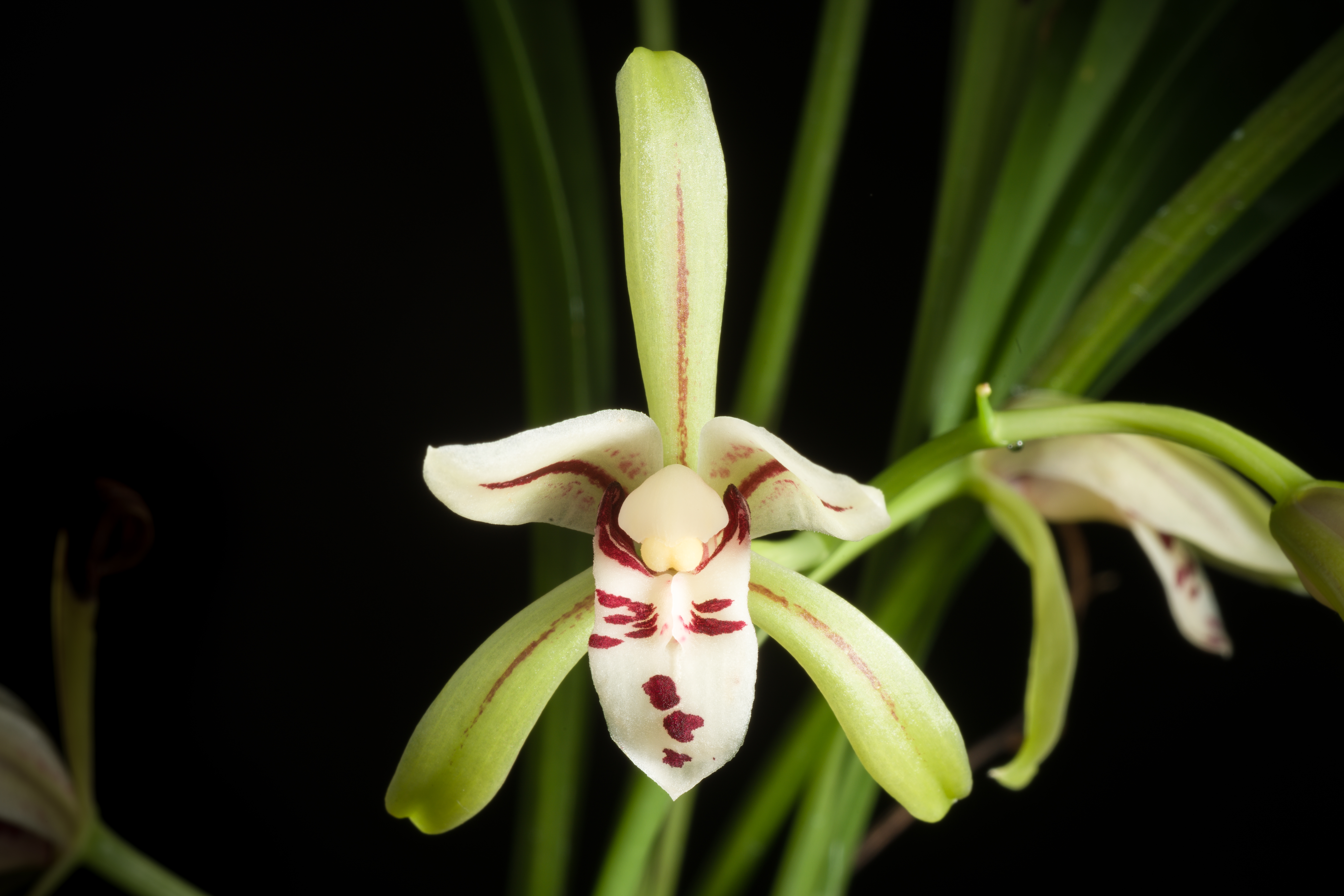 SECTION Pachyrhizanthe Schlechter (1924) Distribution: Trop. & Subtrop. Asia (36 CHC CHH CHS CHT 38 JAP KOR NNS TAI 40 ASS BAN EHM NEP WHM 41 CBD LAO MYA THA VIE 42 BOR JAW MLY MOL SUL SUM 43 NWG) Lifeform: Pseudobulb geophyte or epiphyte Homotypic synonyms Cymbidiopsis lancifolia (Hook.) H.J.Chowdhery, Indian J. Forest. 32: 157 (2009) Heterotypic synonyms Cymbidium cuspidatum Blume, Bijdr. Fl. Ned. Ind.: 378 (1825) Cymbidium javanicum Blume, Bijdr. Fl. Ned. Ind.: 380 (1825) Cymbidium gibsonii Lindl. & Paxton, Paxton's Fl. Gard. 3: 144 (1852) Cymbidium papuanum Schltr., Repert. Spec. Nov. Regni Veg. Beih. 1: 953 (1913) Cymbidium caulescens Ridl., J. Fed. Malay States Mus. 5: 167 (1915) Cymbidium kerrii Rolfe ex Downie, Bull. Misc. Inform. Kew 1925: 381 (1925) Cymbidium nagifolium Masam., Bot. Mag. (Tokyo) 44: 220 (1930) Cymbidium aspidistrifolium Fukuy., Bot. Mag. (Tokyo) 48: 438 (1934) Cymbidium syunitianum Fukuy., Bot. Mag. (Tokyo) 49: 757 (1935) Cymbidium javanicum var. aspidistrifolium (Fukuy.) F.Maek., J. Jap. Bot. 33: 320 (1958) Cymbidium javanicum var. pantlingii F.Maek., J. Jap. Bot. 33: 320 (1958) Cymbidium maclehoseae , Chung Chi J. 11(1): 15 (1972) Cymbidium lancifolium f. aspidistrifolium (Fukuy.) T.P.Lin, Native Orchids Taiwan 2: 122 (1977) Cymbidium lancifolium var. aspidistrifolium (Fukuy.) S.S.Ying, Coloured Ill. Indig. Orchids Taiwan 1(2): 439 (1977) Cymbidium lancifolium var. syunitianum (Fukuy.) S.S.Ying, Coloured Ill. Indig. Orchids Taiwan 1(2): 439 (1977) Cymbidium bambusifolium Fowlie, F.Mark & F.S.Ho, Orchid Digest 50: 19 (1986) Cymbidium lancifolium var. papuanum (Schltr.) S.S.Ying, Mem. Coll. Agric. Natl. Taiwan Univ. 30: 22 (1990) Cymbidium rhizomatosum Z.J.Liu & S.C.Chen, J. Wuhan Bot. Res. 20: 421 (2002) Cymbidium multiradicatum Z.J.Liu & S.C.Chen, Acta Bot. Yunnan. 26: 297 (2004) Cymbidium nagifolium f. conforme Suetsugu, Acta Phytotax. Geobot. 64: 42 (2013)